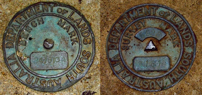 Photographer: Description: Survey markers on Brown Hill, Adelaide, South Australia, Australia. Date: 16 April 2006